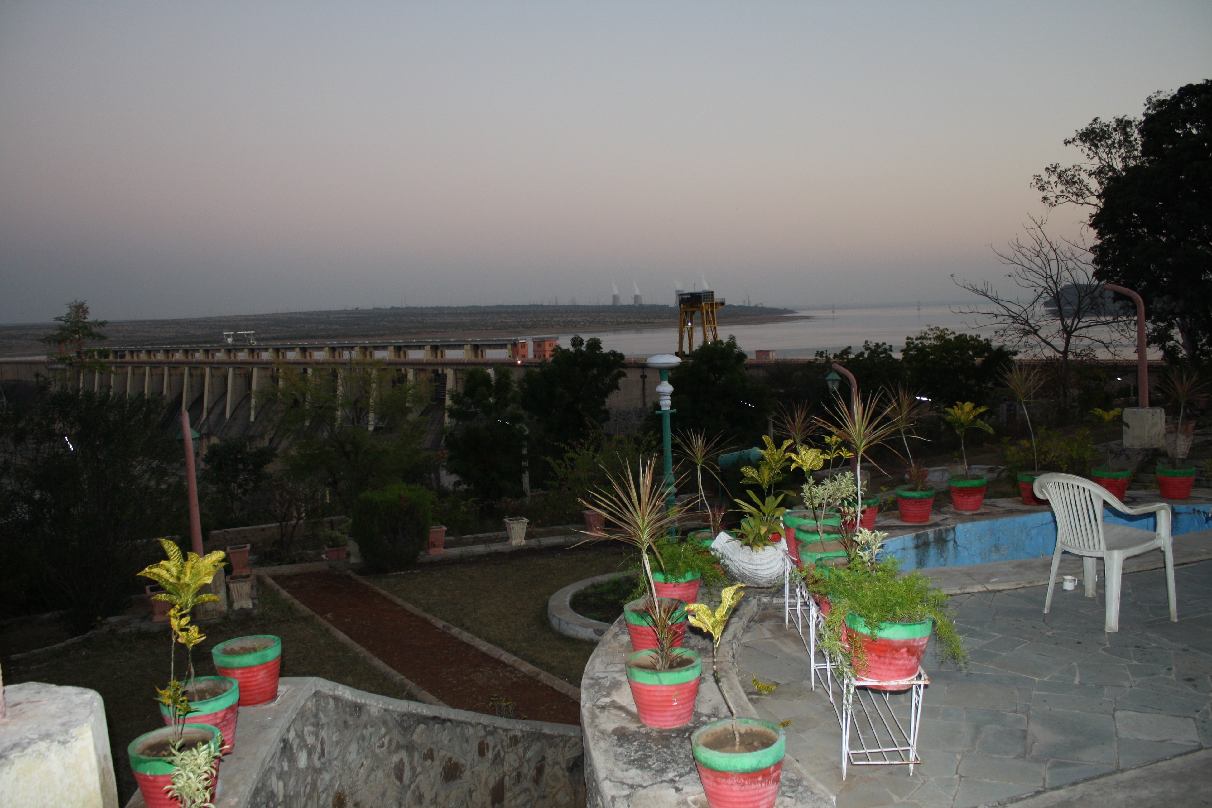 View of Ranapratap Sagar dam from the recreational area